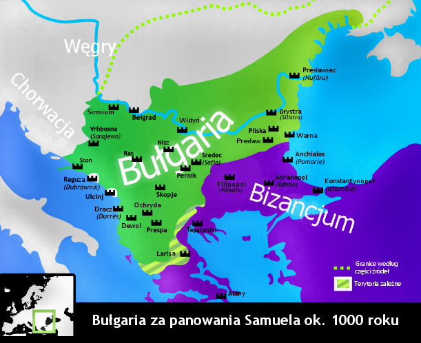 Map of the Bulgarian lands during the rule of Tsar Samuil (997-1014)